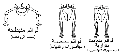 The 3 main types of hip joint in tetrapods. Ref: Kubo, T., and Benton, M.J. (2007-09). "Evolution of Hindlimb Posture in Archosaurs: Limb Stresses in Extinct Vertebrates". Palaeontology 50 (6): 1519-1529.